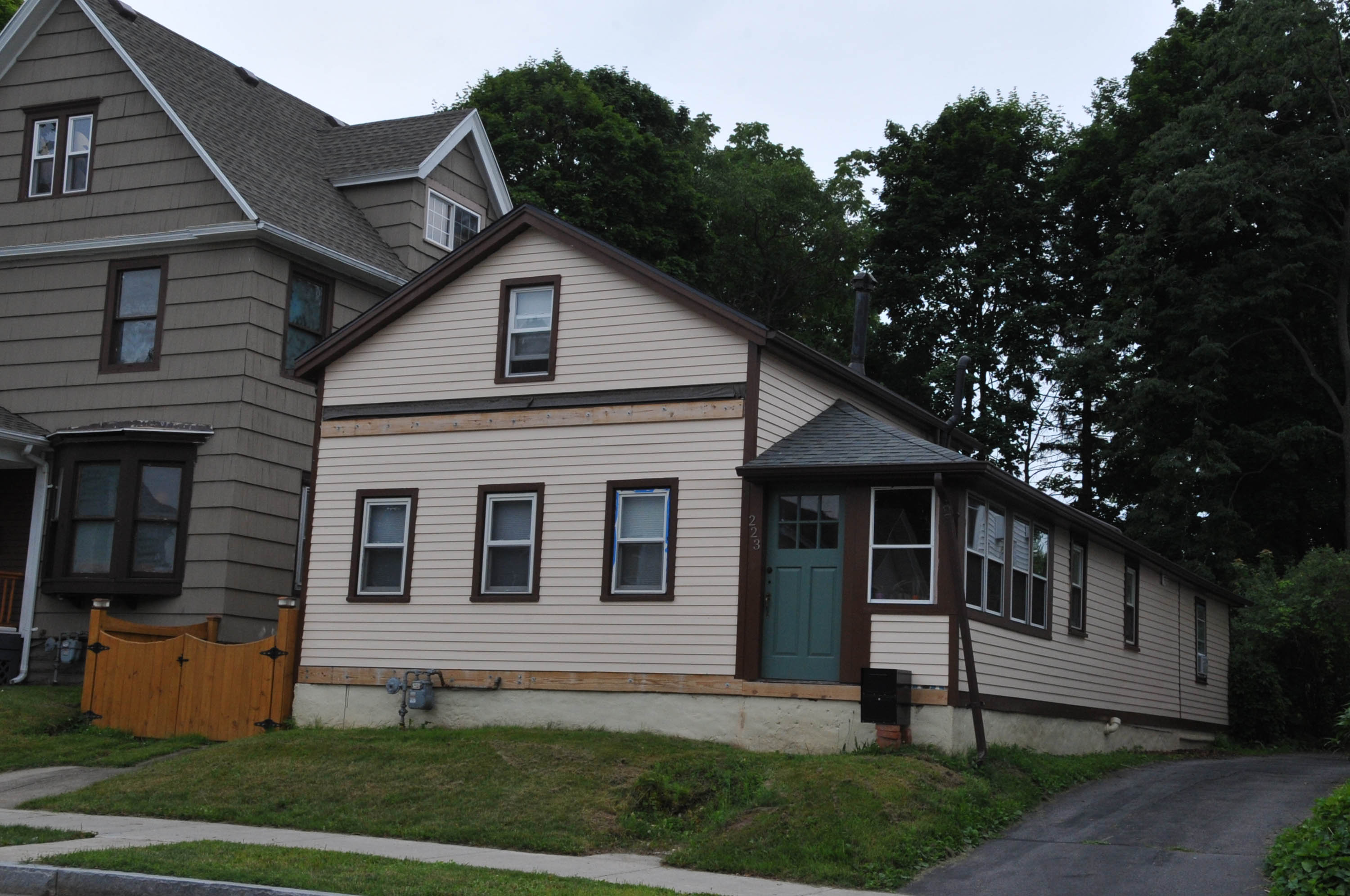 IN 1819 IRISH LABORERS WORKING ON THE ERIE CANAL ESTABLISHED CAMPS AND BUILT MODEST WORKING CLASS HOUSES NEAR THE CANAL. THIS HOUSE AT 223 GREGORY STREET IS KNOWN TO HAVE BEEN BUILT BEFORE 1827 AND THUS MAY BE THE OLDEST SURVIVING HOUSE IN THE DISTRICT ALTHOUGH ITS EXTERIOR CHARACTER IS COMPROMISED BY 20TH CENTURY ALTERATIONS